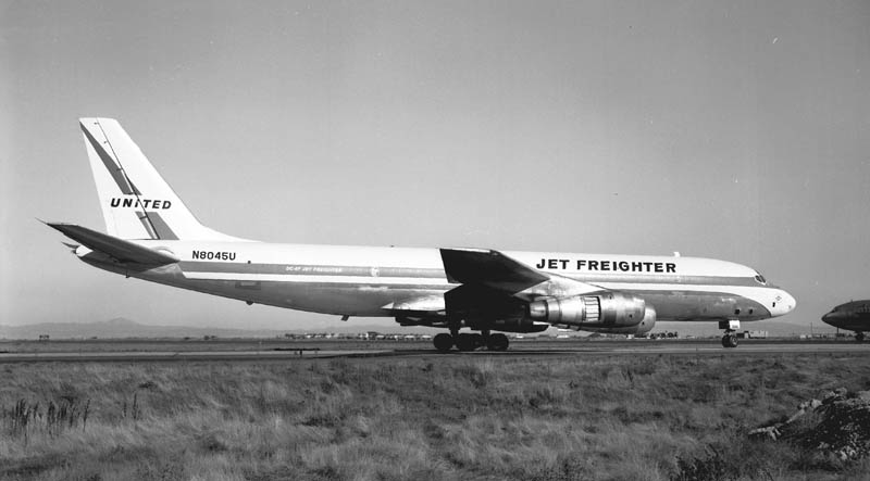 UnitedDC-8freight